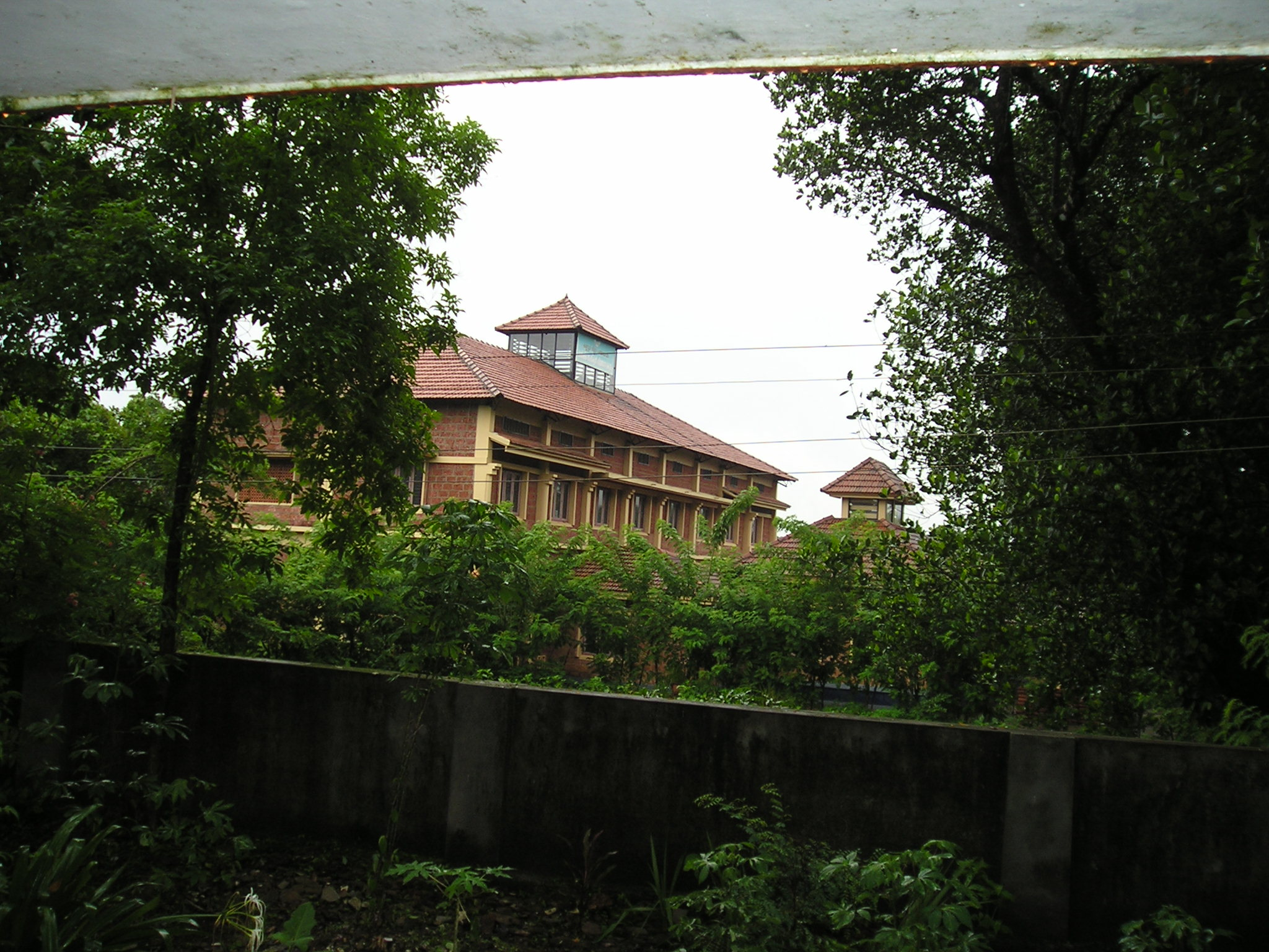 Indigenous Technology Knowledge Centre at DAF, Taliparamba